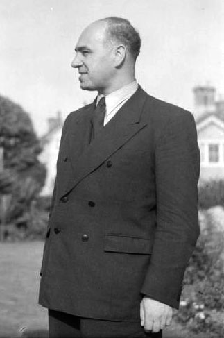 Court Minister Radoje Knezevic arriving in England.